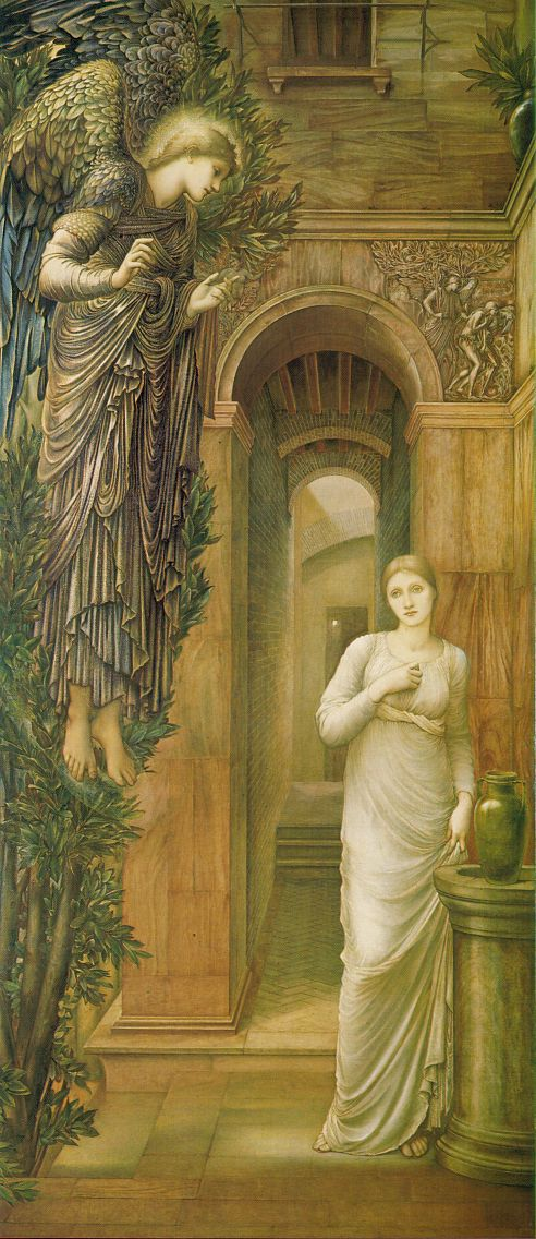 The Annunciation, with Julia Stephen as model